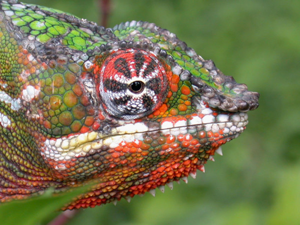 Panther Chameleon